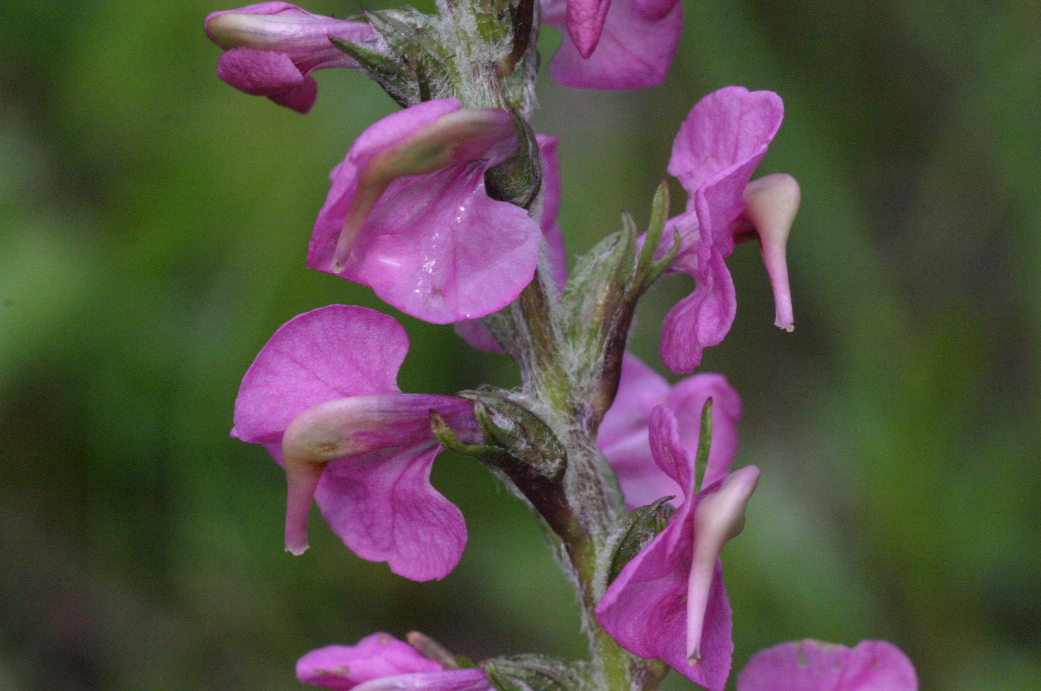 Pedicularis rostratospicata ssp. rostratospicata